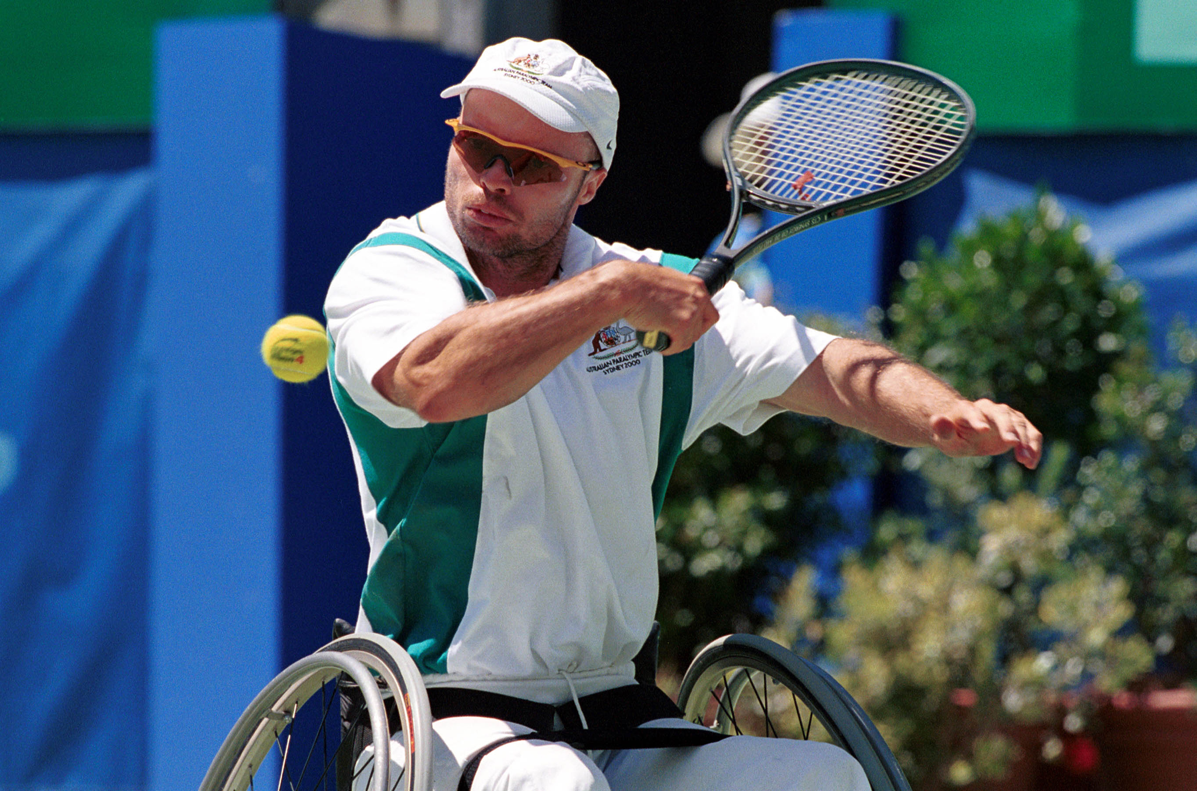 Australian wheelchair tennis player David Hall hits the ball during 2000 Sydney Paralympic Games match